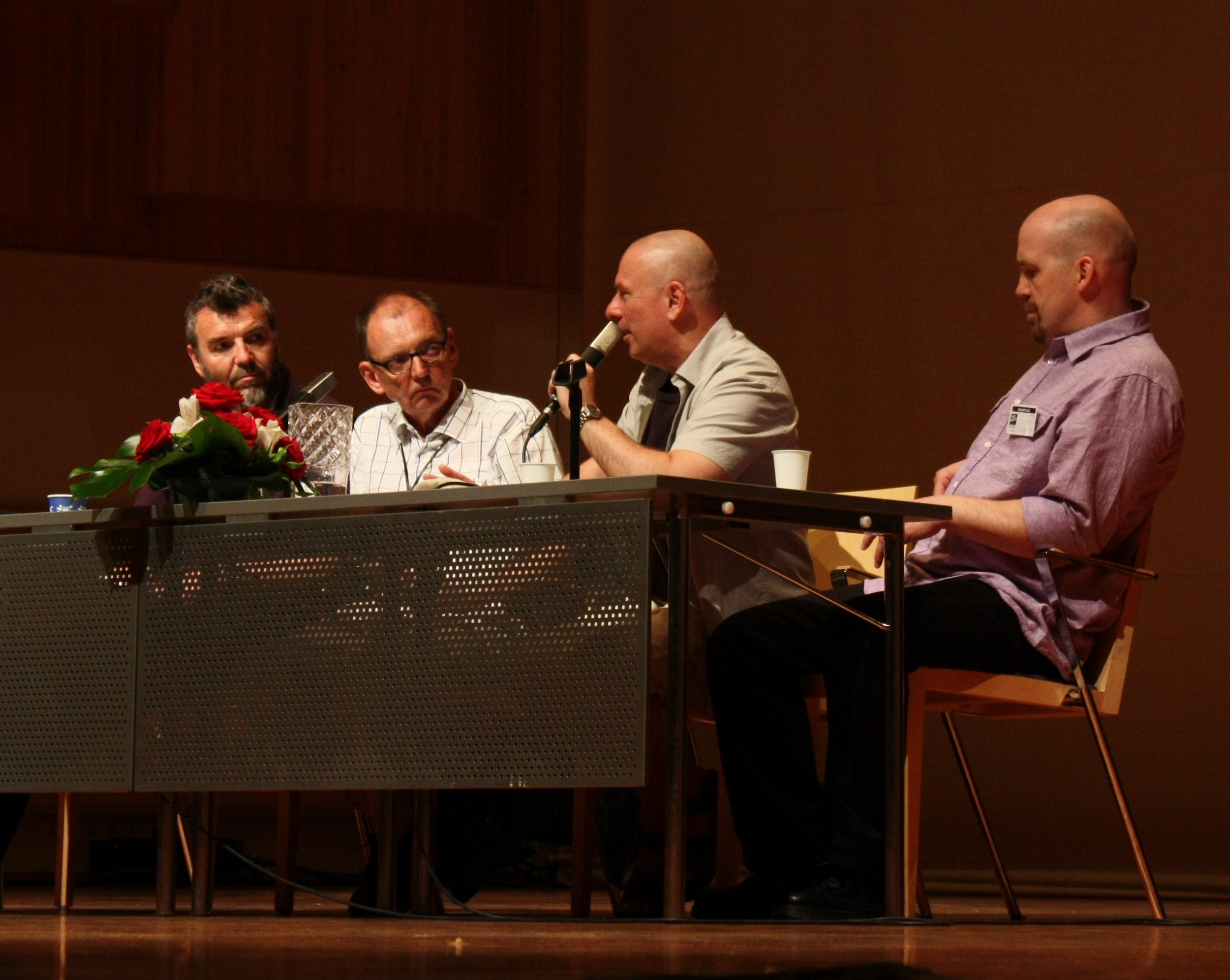 Panel discussion over war literature at Oulu Book Fair 2011 in Oulu Music Centre. Panelists from left to right: Kauko Röyhkä, Robert Brantberg, Ari Paulow and Pekka Jaatinen.